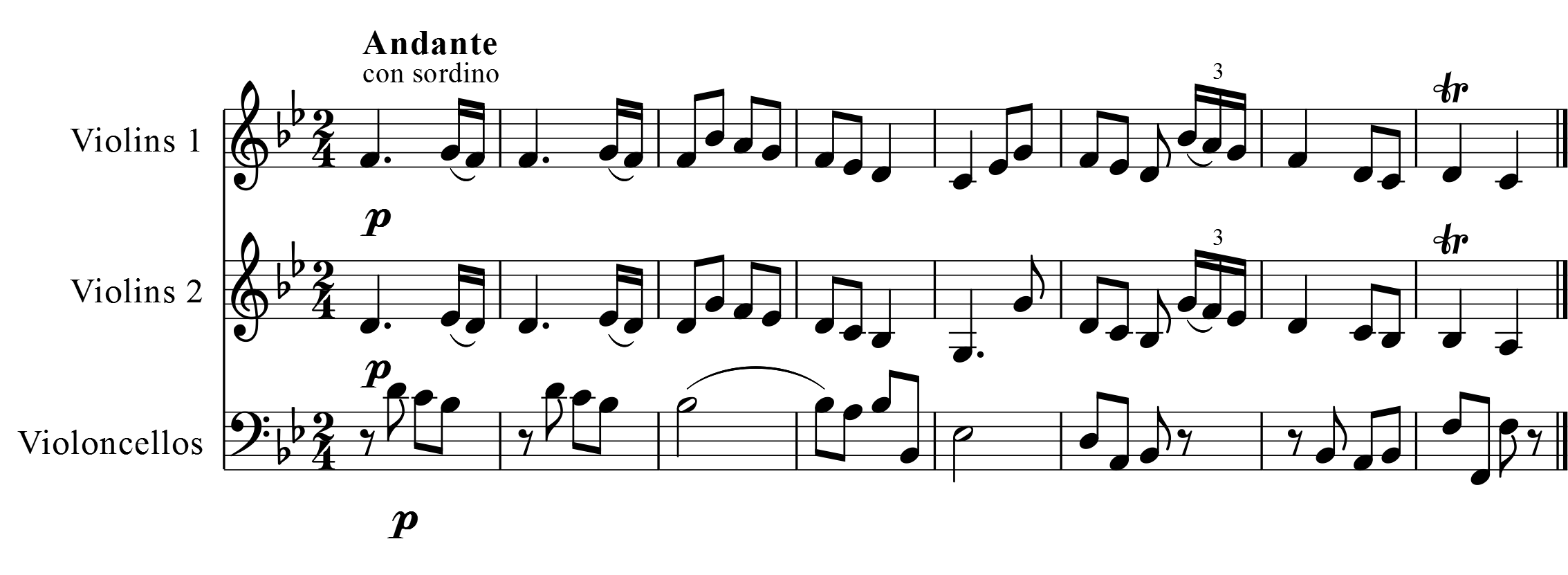 Symphony by unknown composer (formerly thought to have been written by W. A. Mozart, K.98), second movement, bar 1-8